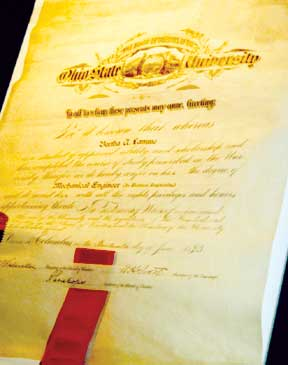 Bertha Lamme-Feicht's graduation diploma